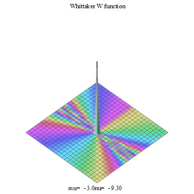 Whittaker W function